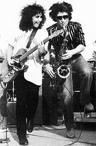 Guitarist Carolyne Mas and saxophonist Crispin Cioe, 1980.